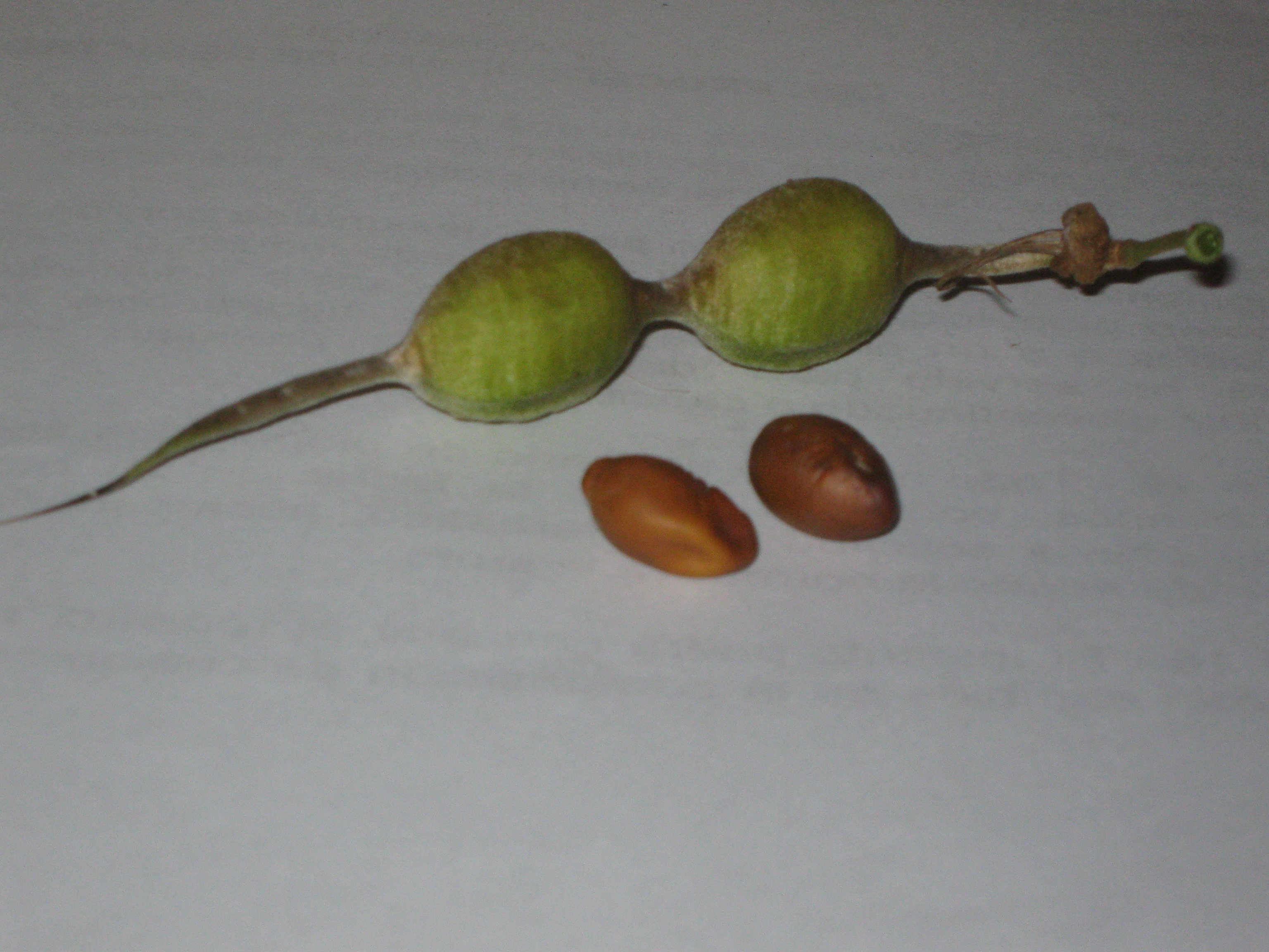 legume and seeds of Sophora macrocarpa